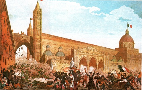 Sicilian Uprising (1848-1849) in Palermo